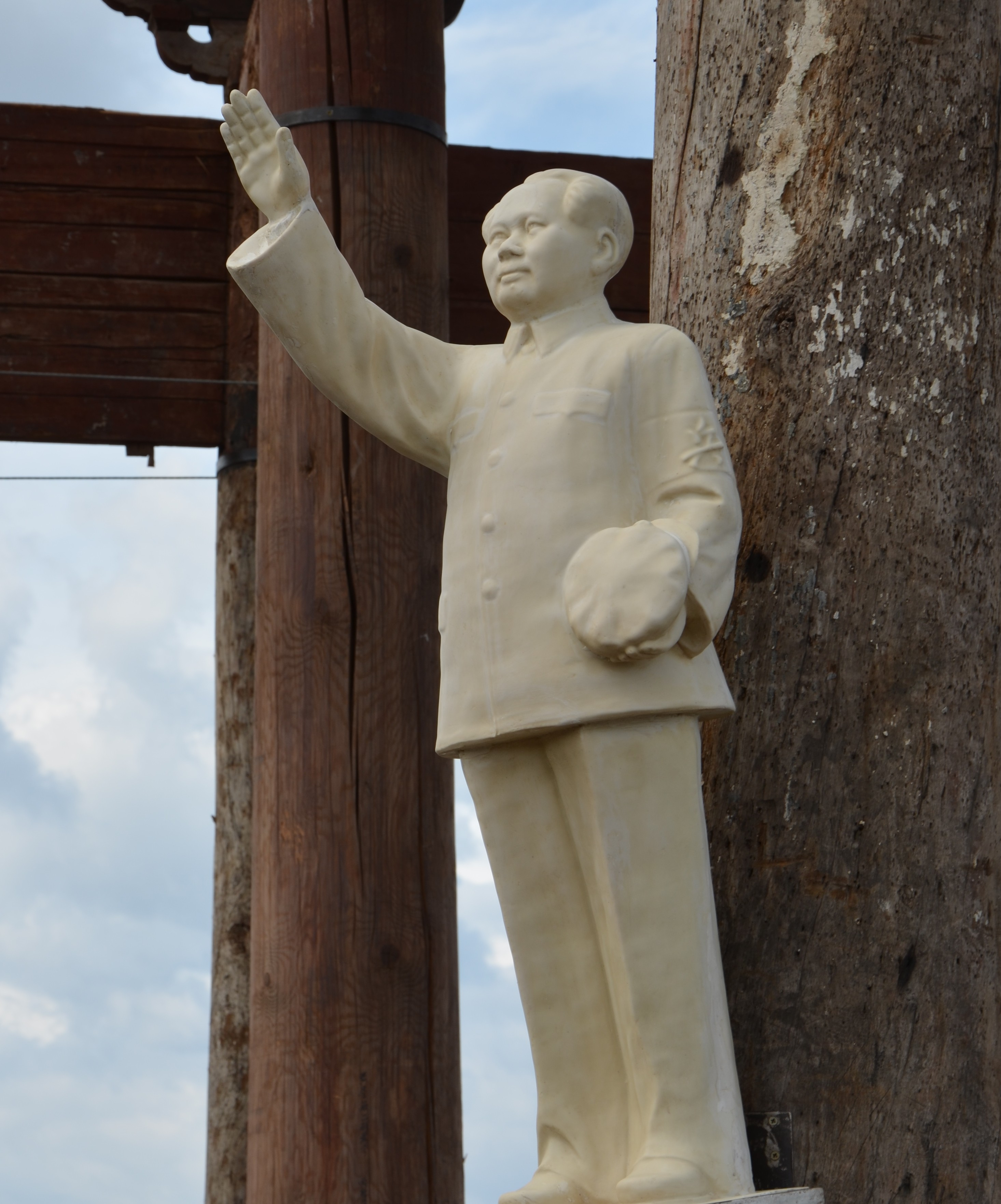 Statue of Mao Zedong